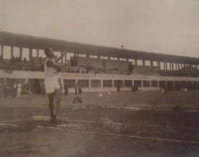 Hedhje cekici. Tirane